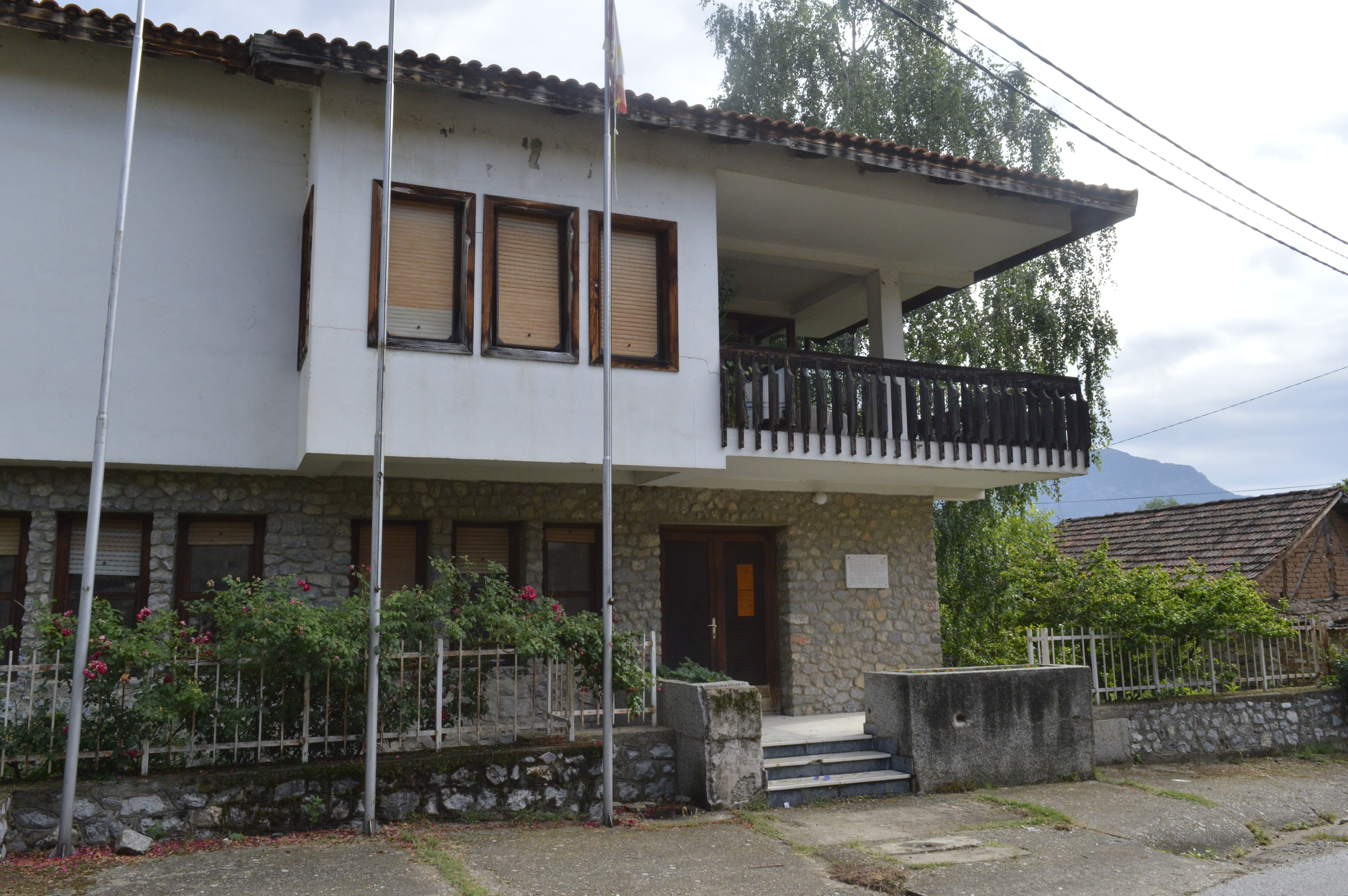 View of House of Petar Pop Arsov